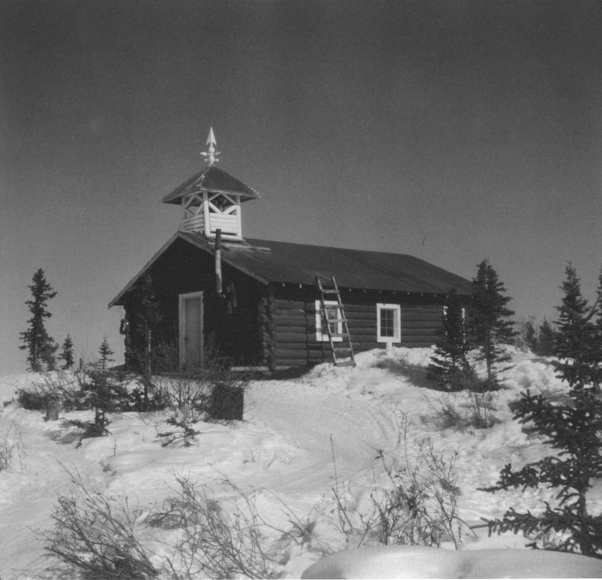 Episcopal Church at Arctic Village. U.S. Fish and Wildlife Service Photo Contest - 1976